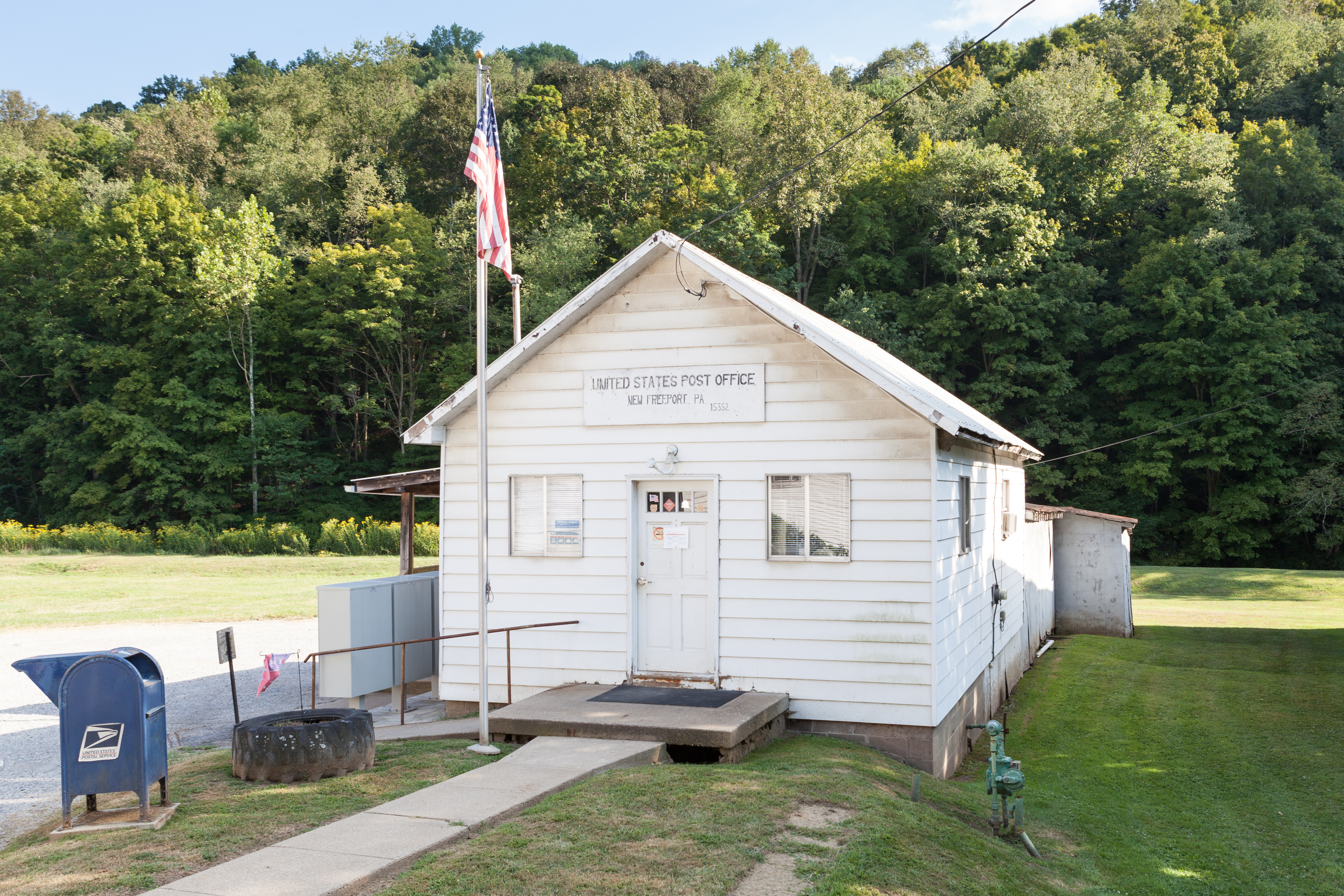 Post Office for New Freeport, Pennslyvania, located at 119 Main Steet in New Freeport, Freeport Township, Greene County, Pennsylvania.